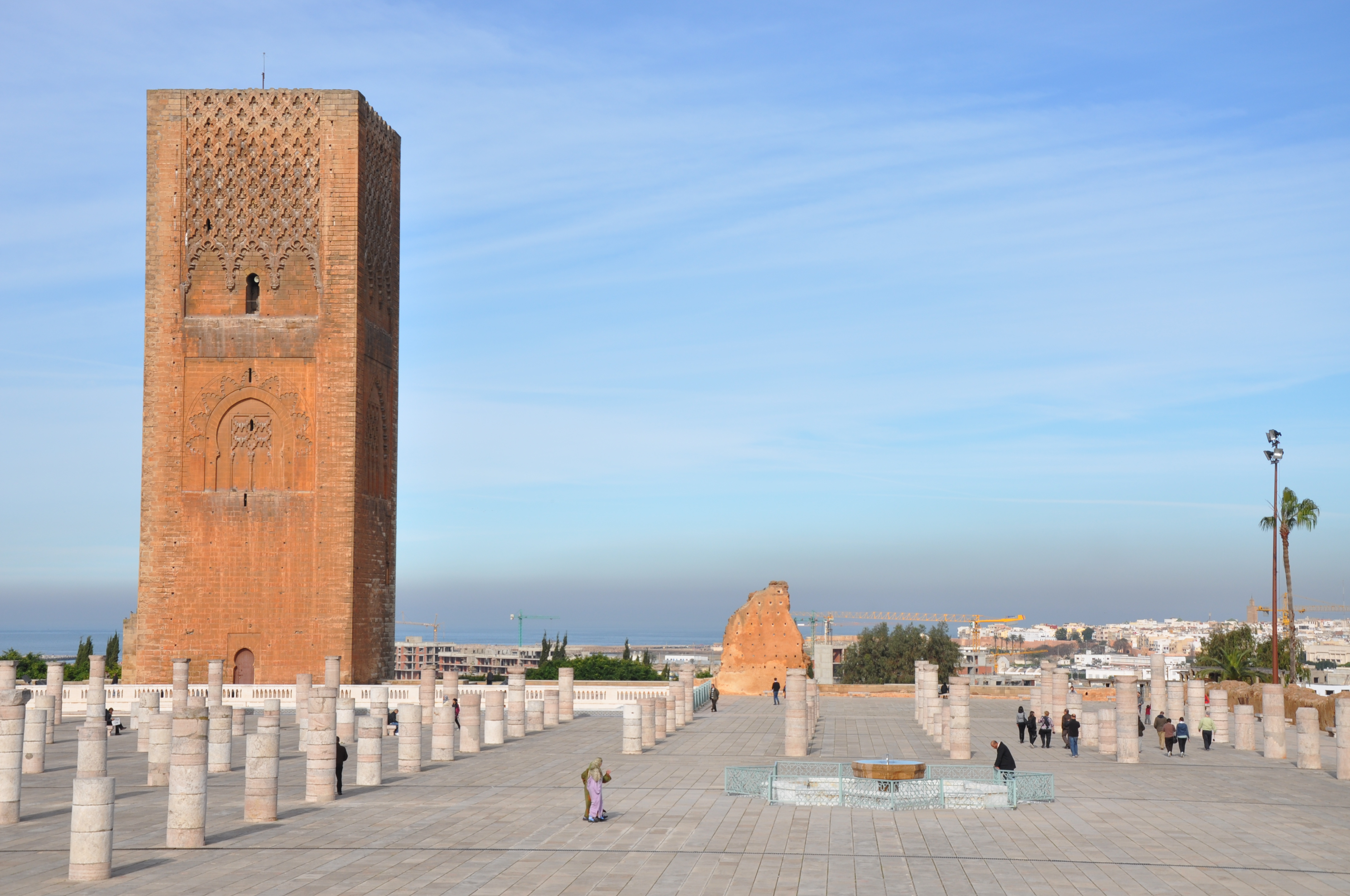 Hassan Tower or Tour Hassan (Arabic: صومعة حسان) is the minaret of an incomplete mosque in Rabat, Morocco. Begun in 1195 AD, the tower was intended to be the largest minaret in the world along with the mosque, also intended to be the world's largest. In 1199, Sultan Yacoub al-Mansour died and construction on the mosque stopped. The tower only reached 44 m (140 ft), about half of its intended 86 m (260 ft) height. The rest of the mosque was also left incomplete, with only the beginnings of several walls and 200 columns being constructed. The tower, made of red sandstone, along with the remains of the mosque and the modern Mausoleum of Mohammed V, forms an important historical and tourist complex in Rabat. Instead of stairs, the tower is ascended by ramps. The minaret's ramps would have allowed the muezzin to ride a horse to the top of the tower to issue the call to prayer.